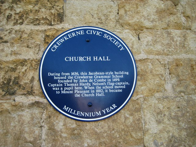 Church Hall, Crewkerne. There is always confusion over Dorset's two famous men called Thomas Hardy. This plaque mentions Thomas Masterman Hardy (or "Kiss me Hardy") born in Dorset at Kingston Russell, moving to Portesham in 1769 and going to sea in 1781 to become a close friend of Admiral Nelson - Hardy was at his side when Nelson was dying in battle. Hardy's Monument on the hill above Portesham is in his memory. See also images Church Hall Crewkerne - .uk - 897115.jpg and Hardy's Monument - .uk - 931885.jpg, and Wikipedia articles Sir Thomas Hardy, 1st Baronet and Crewkerne Grammar School.